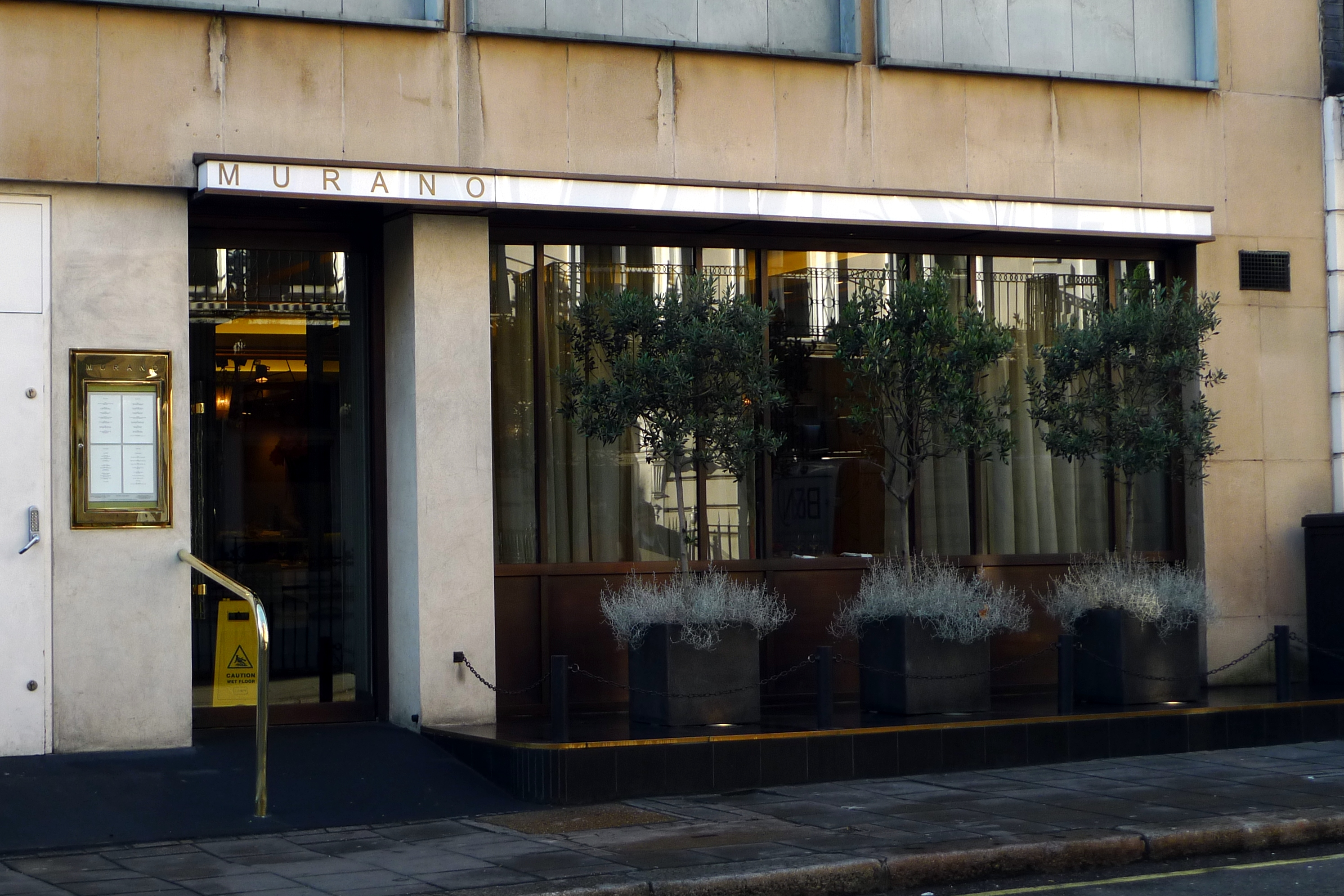 Very nice restaurant with a Michelin star for its celebrated owner (Angela Hartnett). Nice environment, good service, and good value for the area and the level of cooking. The wine list isn't cheap though. (It is next door to another Michelin-starred restaurant.) Queen Street, Mayfair, London W1J 5PP